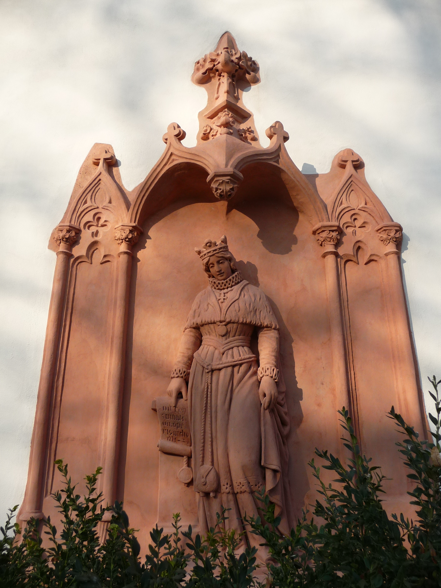 Konstancia of Hungary depicted at Cistercians's monastery Porta Coeli, Předklášteří, the Czech Republic